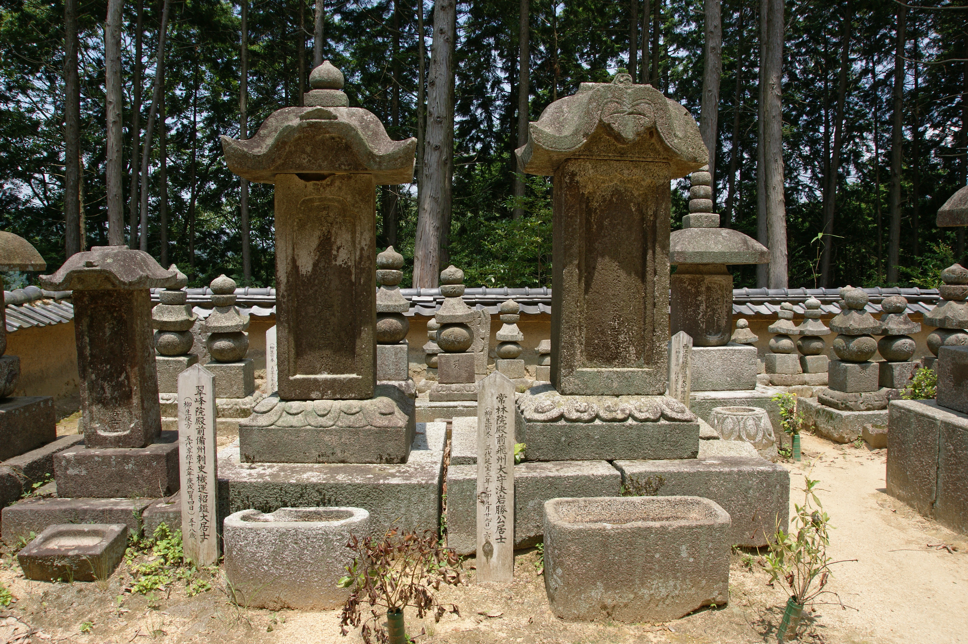 Hotokuji in Nara, Nara prefecture, Japan